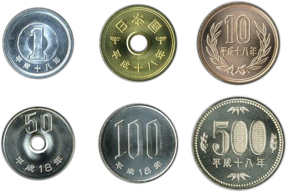 coins of japan.